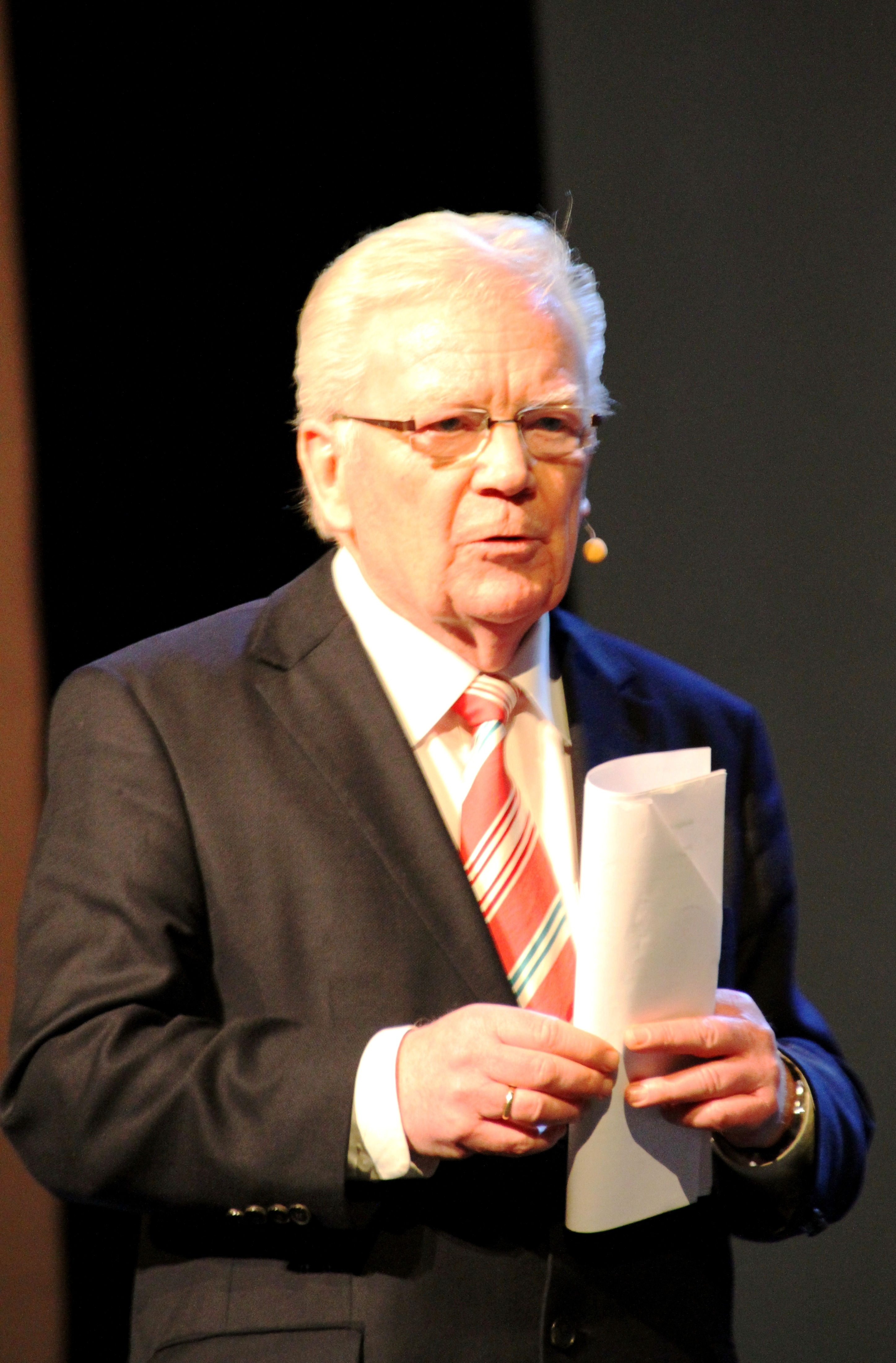 Geir Helljesen, Norwegian news TV journalist during almost 50 years.